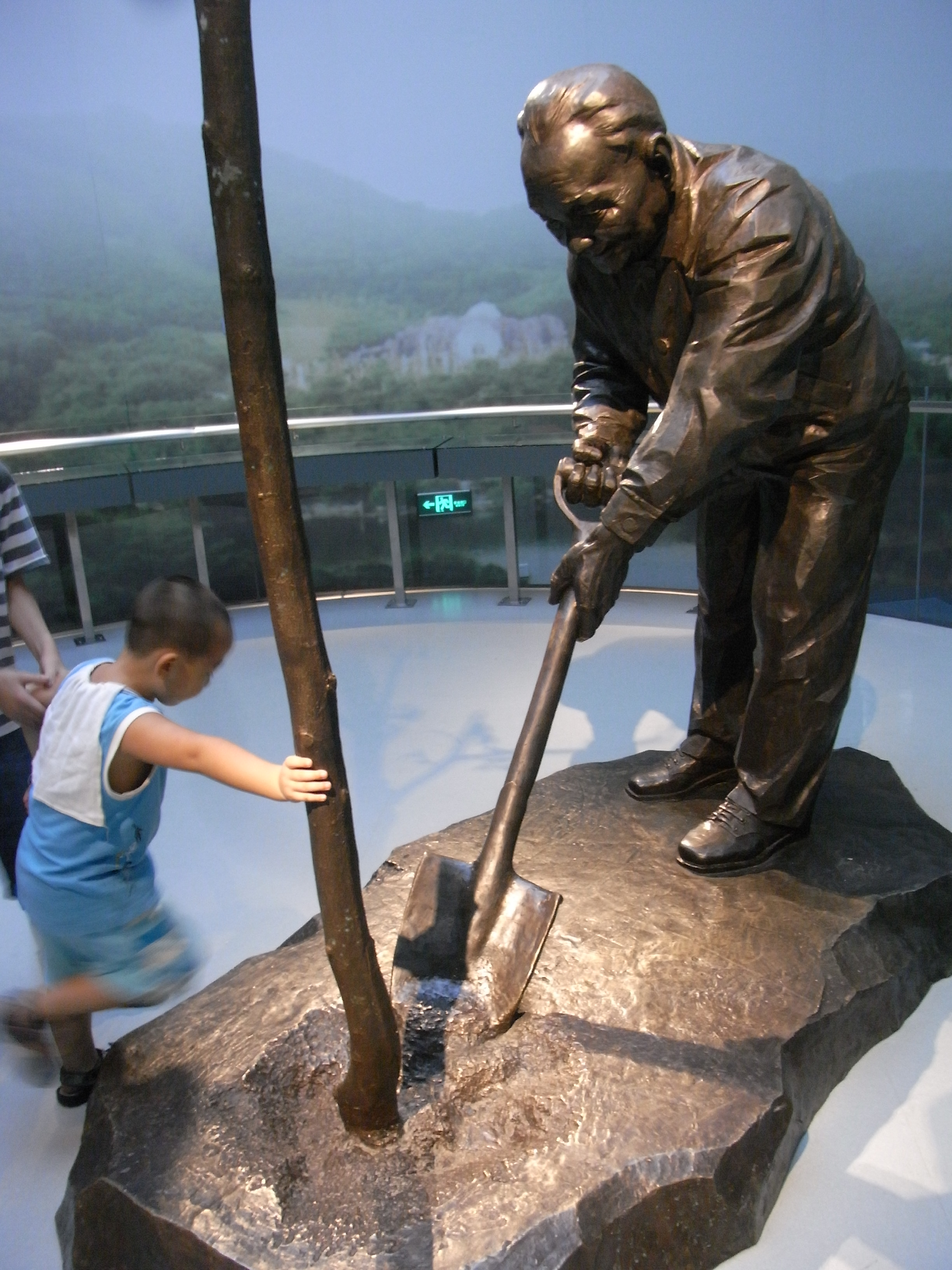 Futian District, Shenzhen Museum, Deng Xiaoping at Shenzhen during planting tree ceremony.